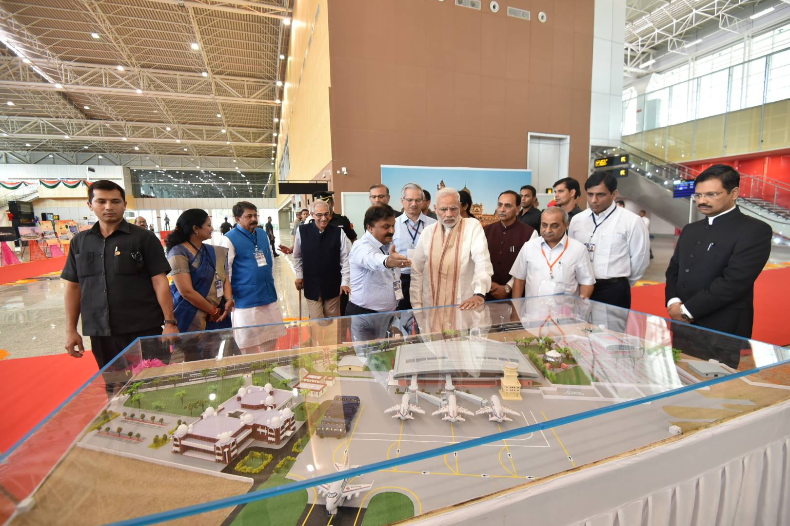 Prime Minister Narendra Modi inaugurated the new terminal building at Vadodara Airport on 22 October 2016. The Prime Minister is seen viewing a model of the airport.